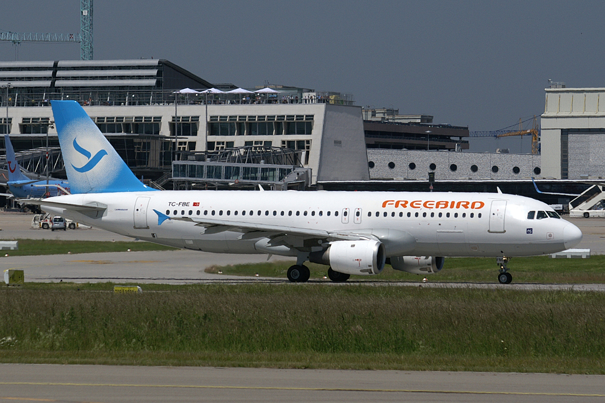 Freebird Airlines Airbus A320 TC-FBE